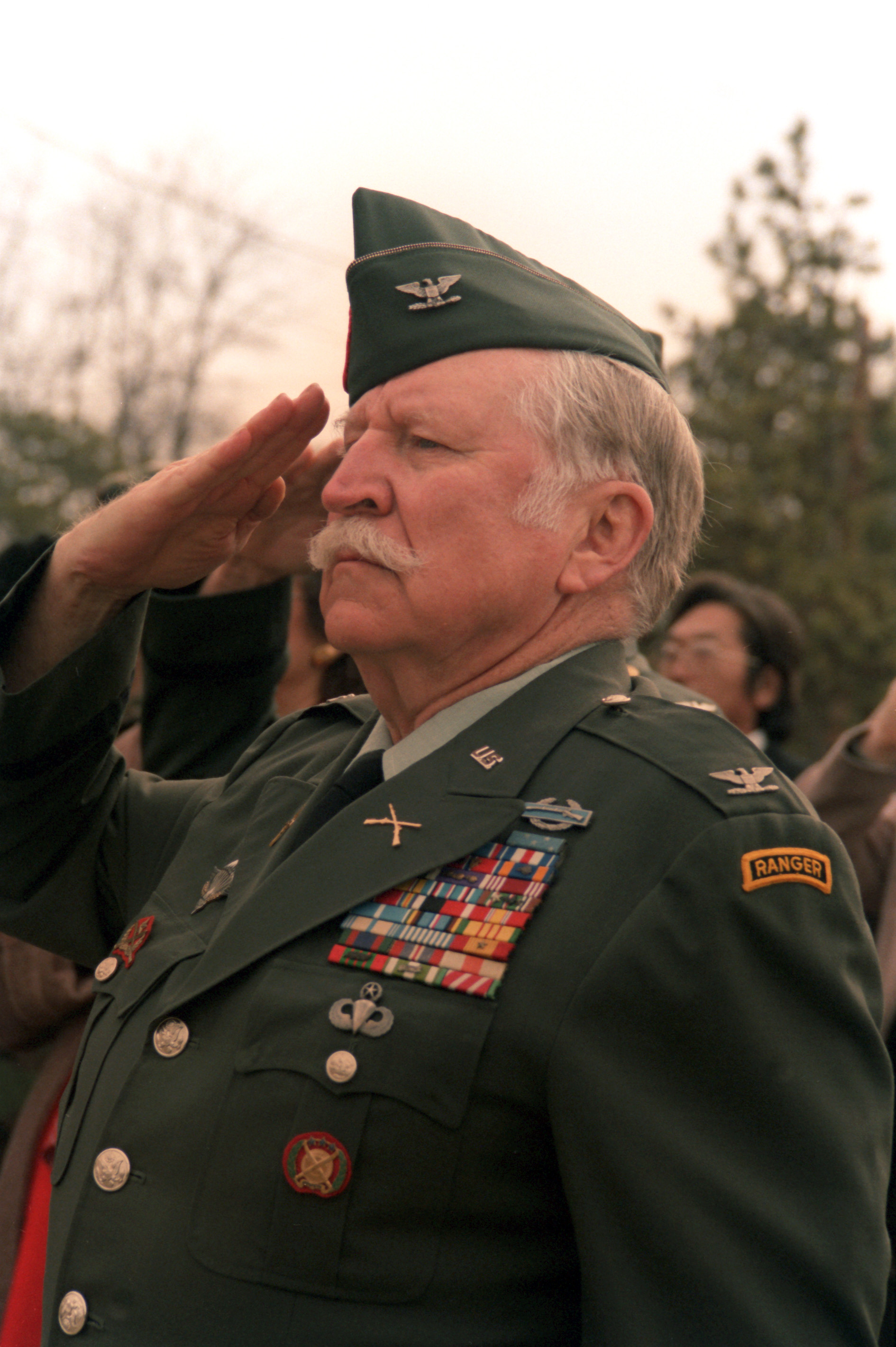 Retired United States Army Colonel (COL) Lewis Millett, a Korean War Medal of Honor recipient, salutes the flag at a memorial service commemorating the charge he led up Bayonet Hill in 1951. The service is being held during the joint U.S/South Korean Exercise TEAM SPIRIT '85.